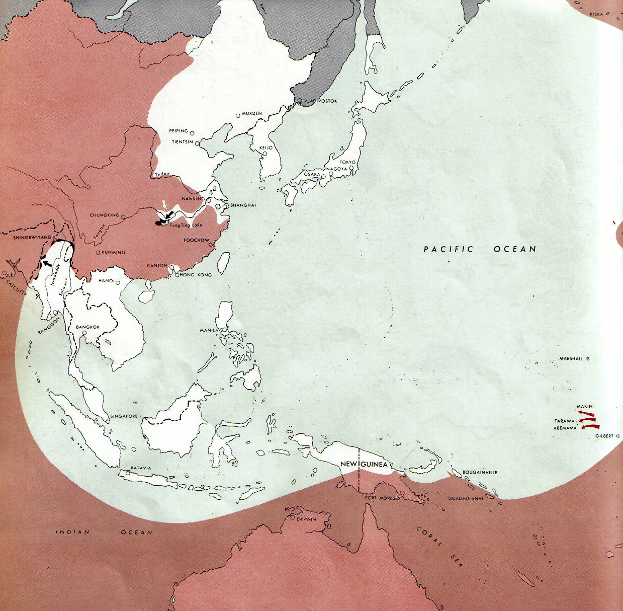 Map of the front against Japan as of 1 Dec 1943: This map is taken from the source "Atlas of the World Battle Fronts in Semimonthly Phases to August 15th 1945: Supplement to The Biennial report of The Chief of Staff of the United States Army July 1, 1943 to June 30 1945 To the Secretary of War". (See Cover, Forward and Map details)